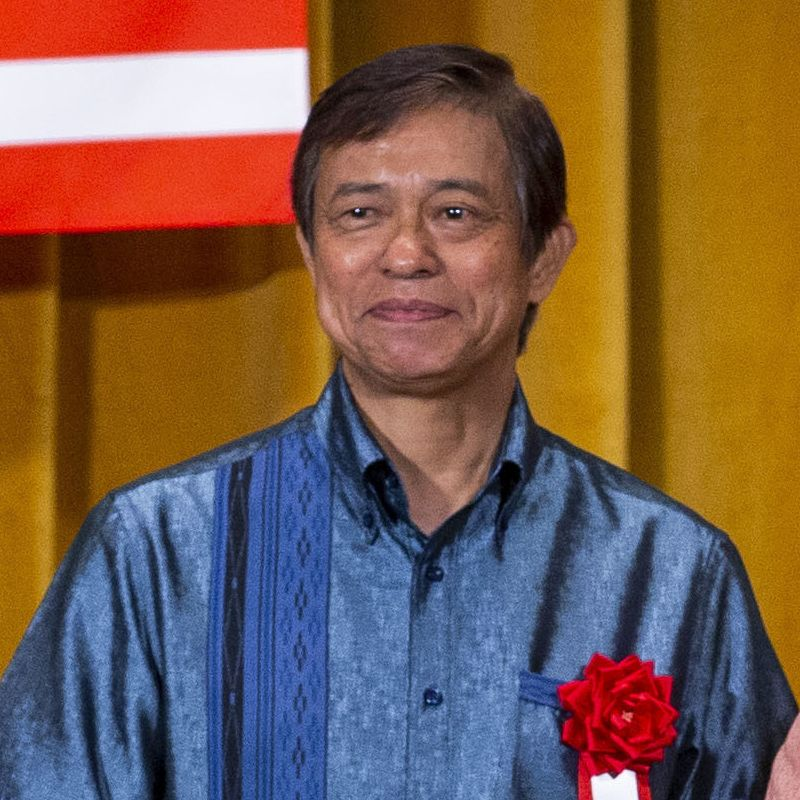 Kiichirō Jahana, the Vice Governor of Okinawa Prefecture, at the Naha Terrace